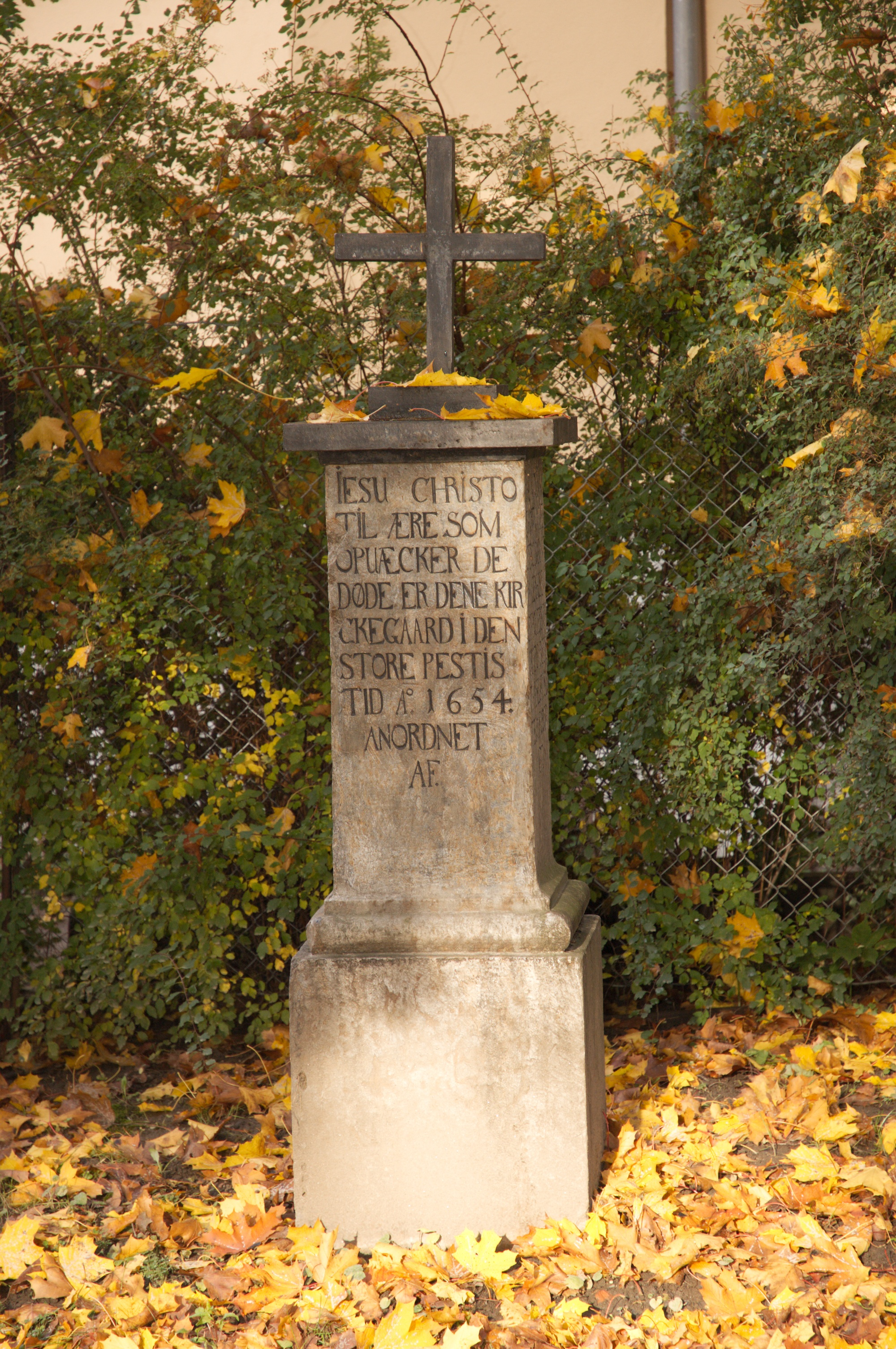 Monument of Pestilence at Krist Churchyrd in Oslo, Norway